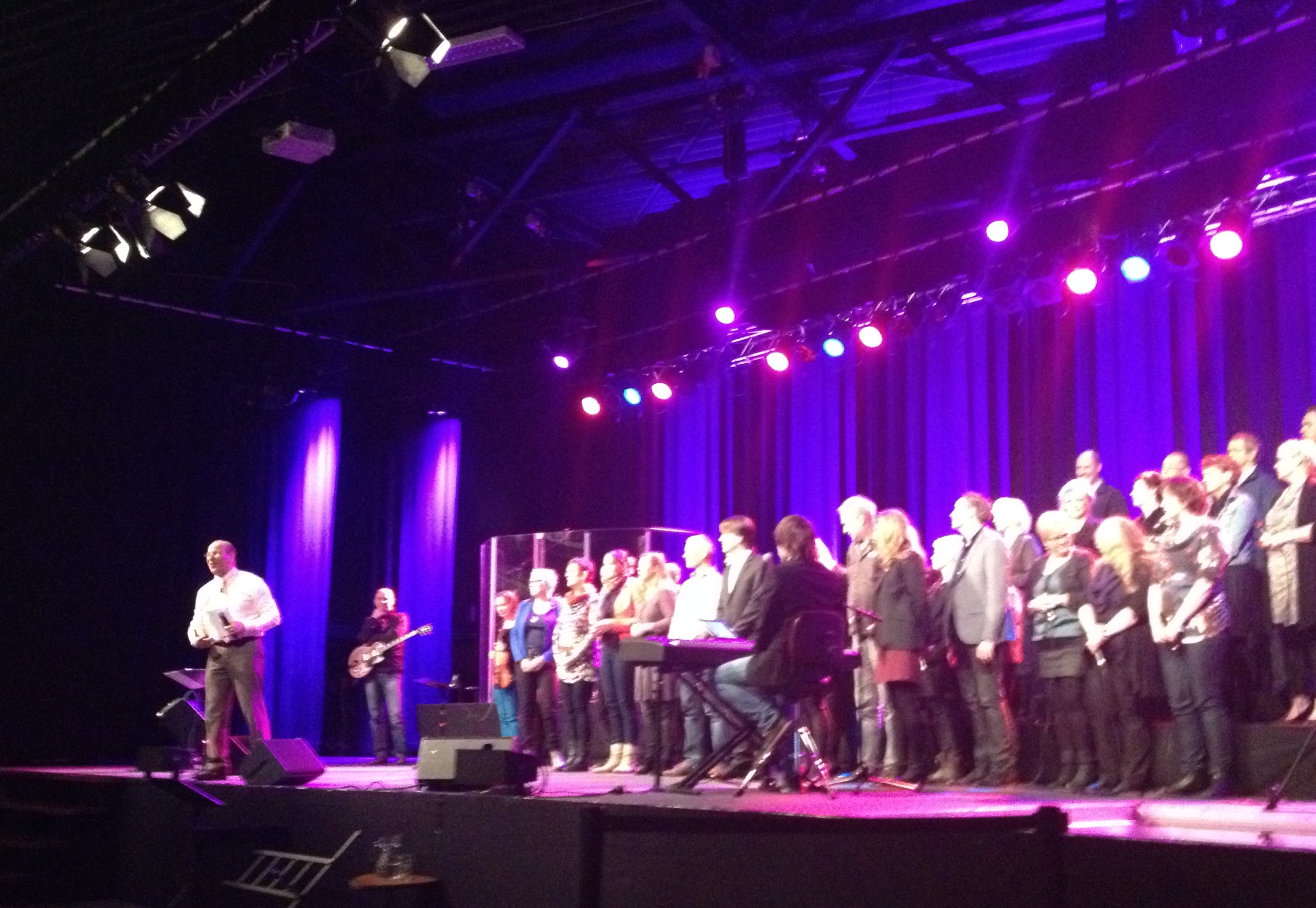 Orlando Bottenbley op het podium tijdens de doopdienst van 26-01-2014.